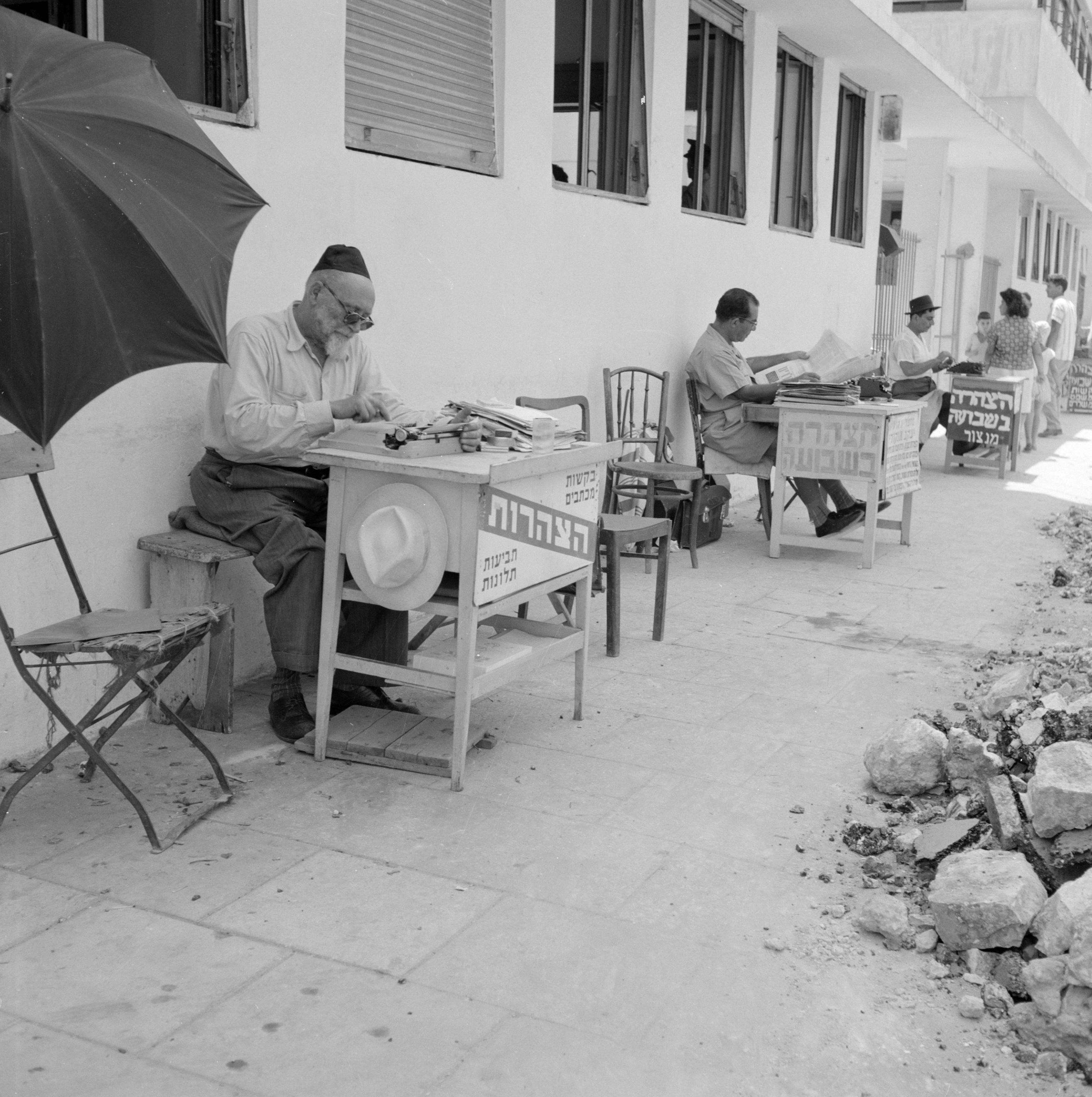 Filling out forms to court